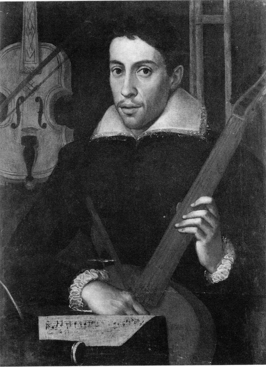 Portrait of a musician by a Cremonese painter. The sitter has traditionally, but incorrectly, been identified as Antonio Stradivari. Claudio Monteverdi (1567-1643) and Gasparo da Salò (1540-1609) have been suggested. He holds a Brescian viola da gamba, and there is a viola/viola with a bow in the background.